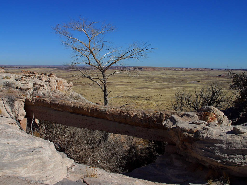 Agate Bridge, a petrified log over a wash, in Petrified Forest National Park, Arizona, United States